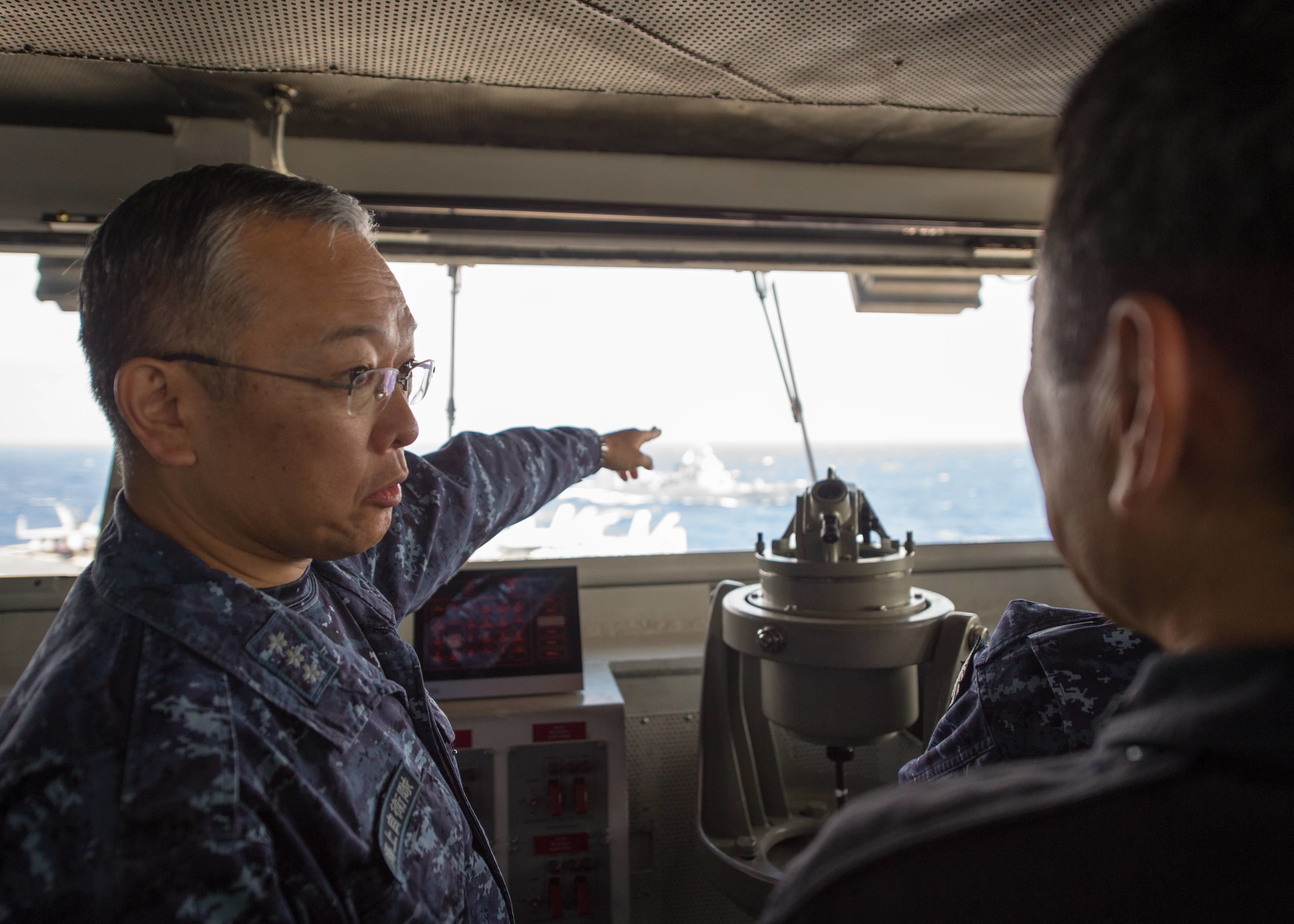 161103-N-GP548-007 PHILIPPINE SEA (Nov. 3, 2016) Vice Admiral Yutaka Murakawa, Vice Chief of Staff, Japan Maritime Self Defense Force (JMSDF), discusses a ship formation with distinguished visitors on the bridge of the Nimitz-class aircraft carrier USS Ronald Reagan (CVN 76) during the joint-bilateral exercise Keen Sword 17 (KS17). KS17 is a biennial, Chairman of the Joint Chiefs of Staff-directed, U.S. Pacific Command-sponsored Field Training Exercise (FTX). KS17 is designed to meet mutual defense objectives by increasing combat readiness and interoperability between Japan Self-Defense Forces (JSDF) and U.S. forces. Ronald Reagan, the flagship of Carrier Strike Group Five (CSG 5), is on patrol in the Philippine Sea supporting security and stability in the Indo-Asia-Pacific region. (U.S. Navy photo by Petty Officer 1st Class Elijah G. Leinaar/Released)